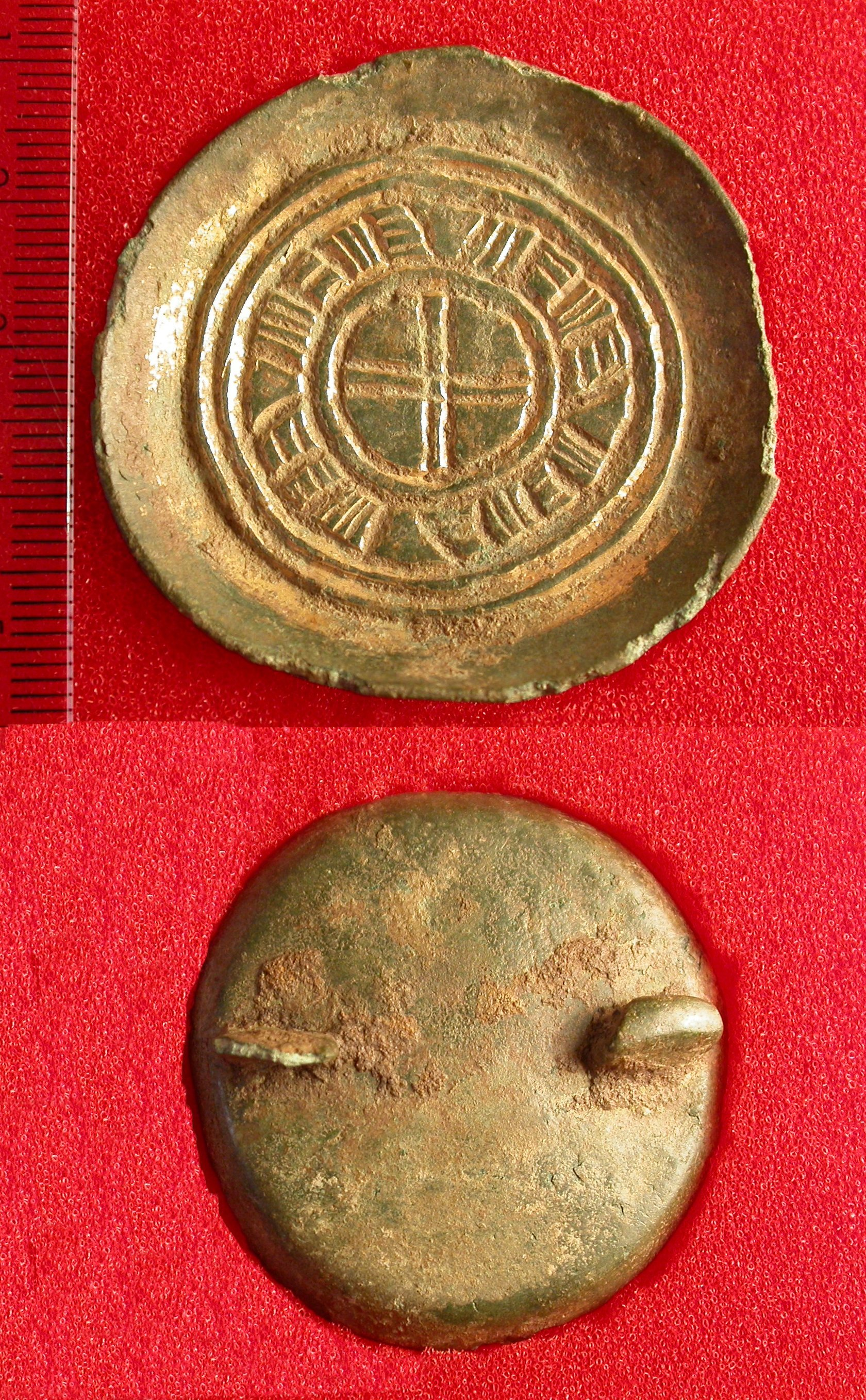 An Early Medieval gilded, copper alloy saucer brooch, with an incised pattern. The central design includes two lines making a plain cross enclosed in two circles, a border of oblique and horizontal lines enclosed in two more circles. The upturned edges of the brooch are slightly damaged. Parts of the pin fitting and catch plate survive on the undecorated back of the brooch. A brooch with a similar design was found with an inhumation in a late 5th - early 7th C cemetery, at Castle Hill, Wheatley, Oxon in the 1880s (Macgregor and Bolick 1993 p 49, no 2.34)